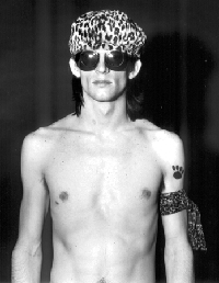 Pete McRae 1979 I own this photo.